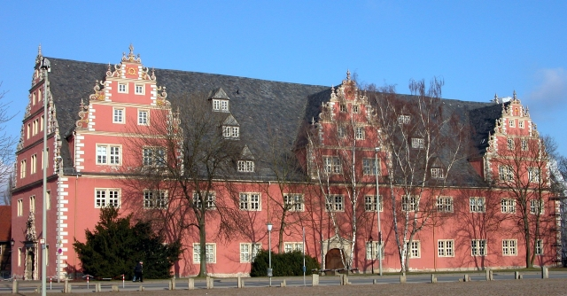 Wolfenbüttel, Germany: Wolfenbüttel Armory.